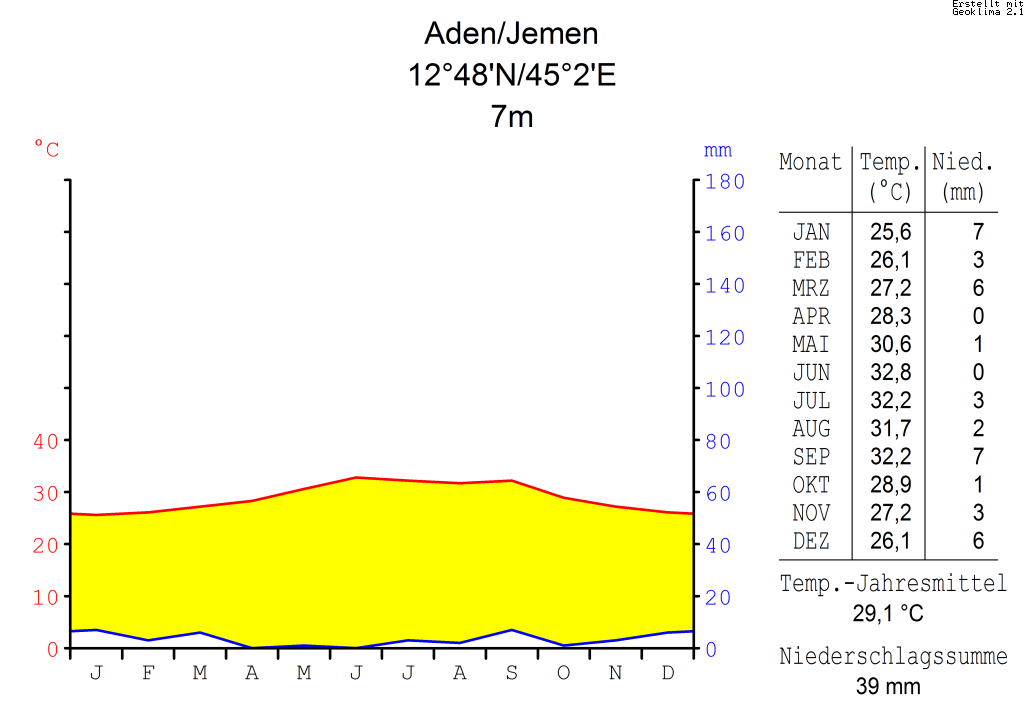 climate chart in the format by Walther and Lieth, metric, °Celsisus and millimeters, made with Geoklima 2.1 DateOctober 2006SourceSoftware: Geoklima 2.1 Website GeoklimaAuthorHedwig in WashingtonPermission (Reusing this file) Own work, attribution required (Multi-license with GFDL and Creative Commons CC-BY 2.5)